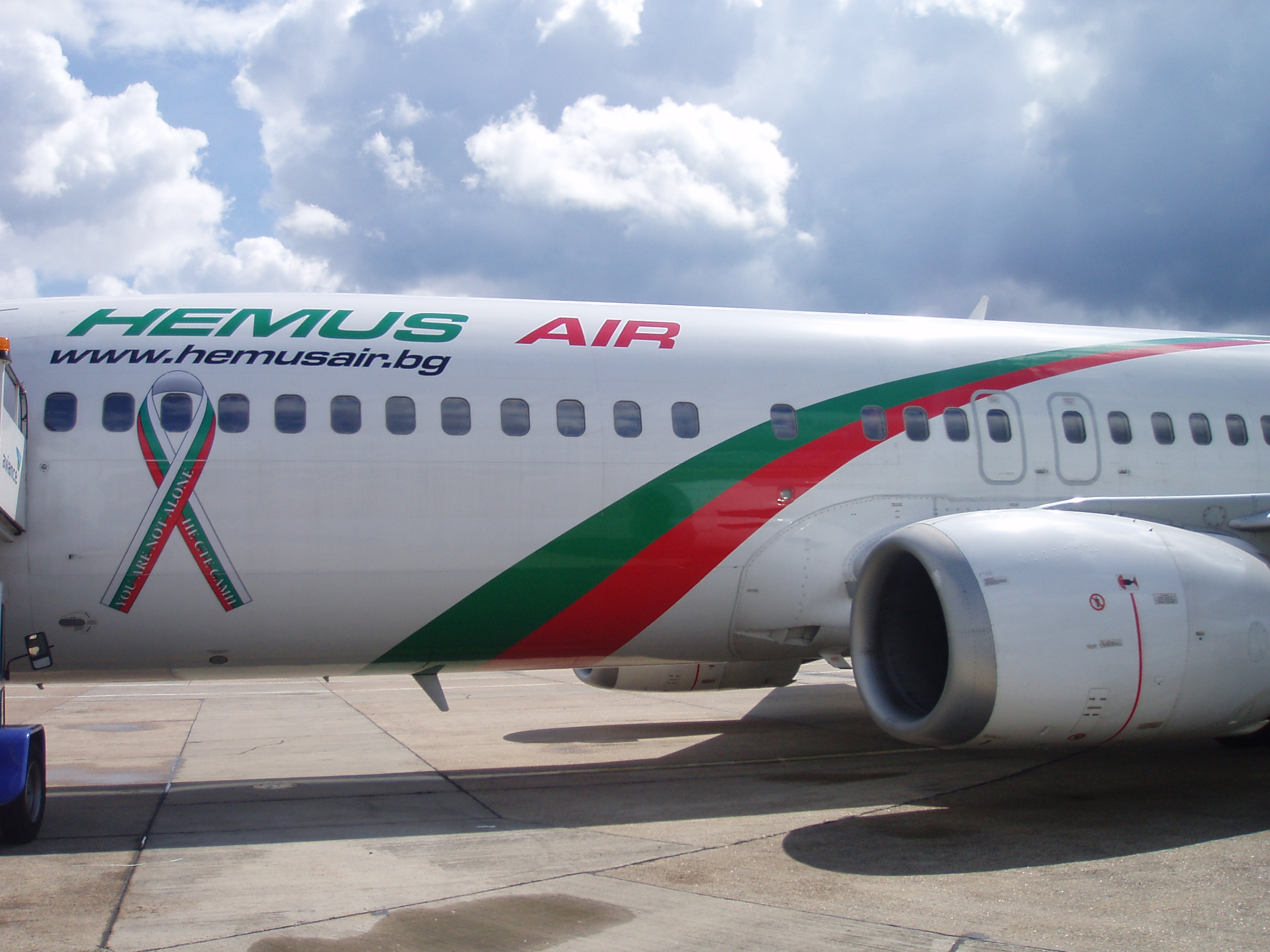 Hemus Air aeroplane, Gatwick, London, UK.